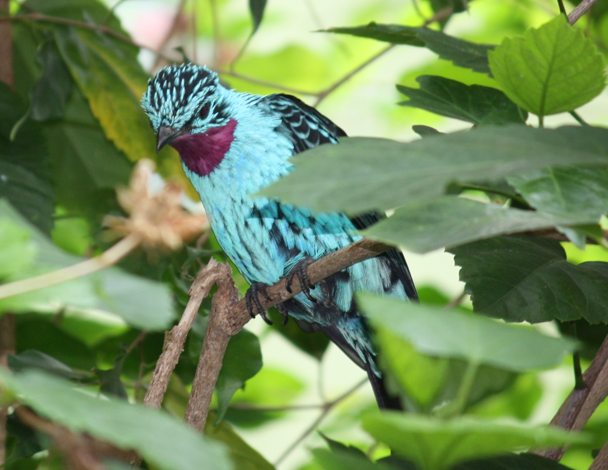 Spangled Cotinga Cotinga cayana at Cincinnati Zoo